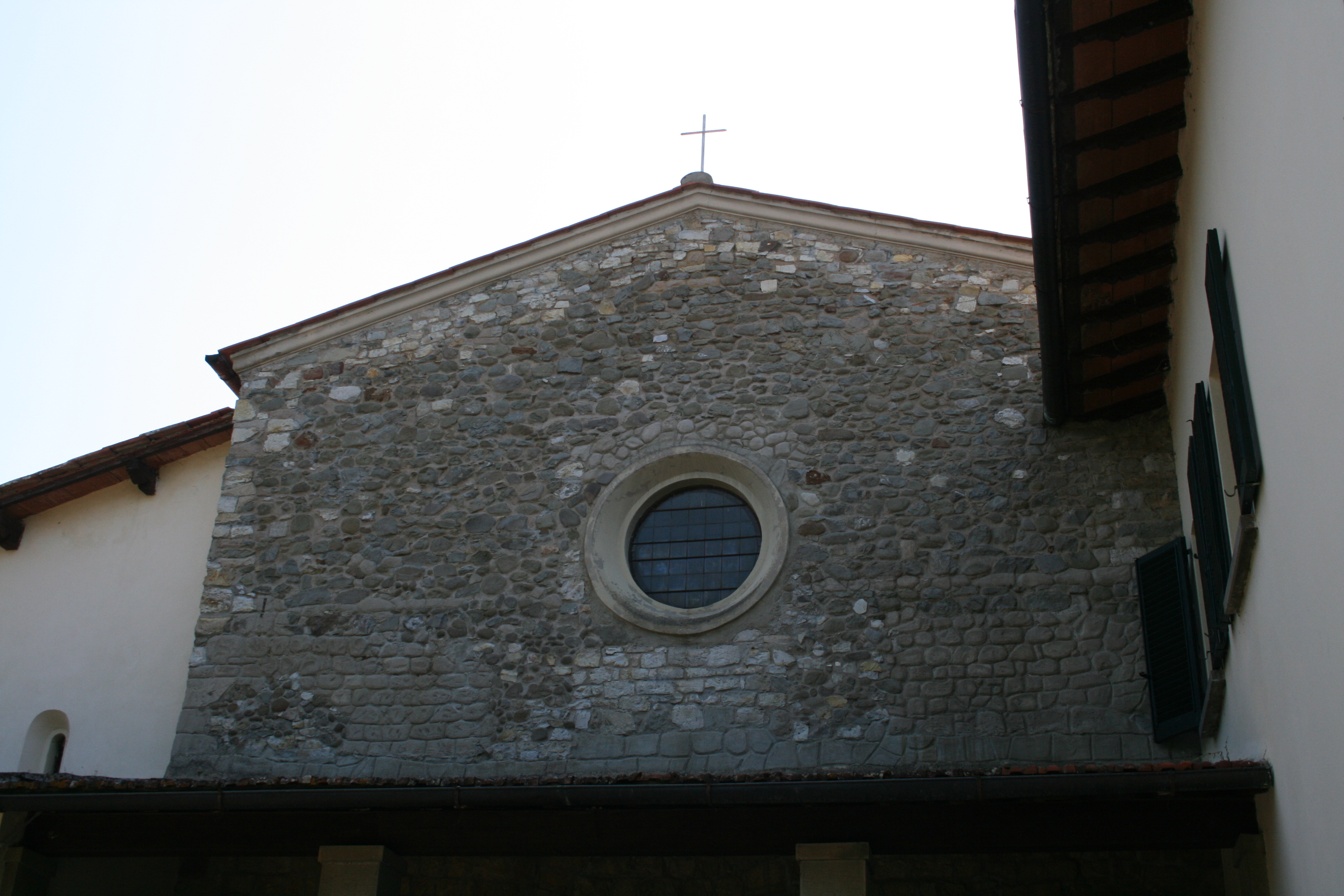 The Church of San Lorenzo, the church of the Cappuccini Convent in Montevarchi